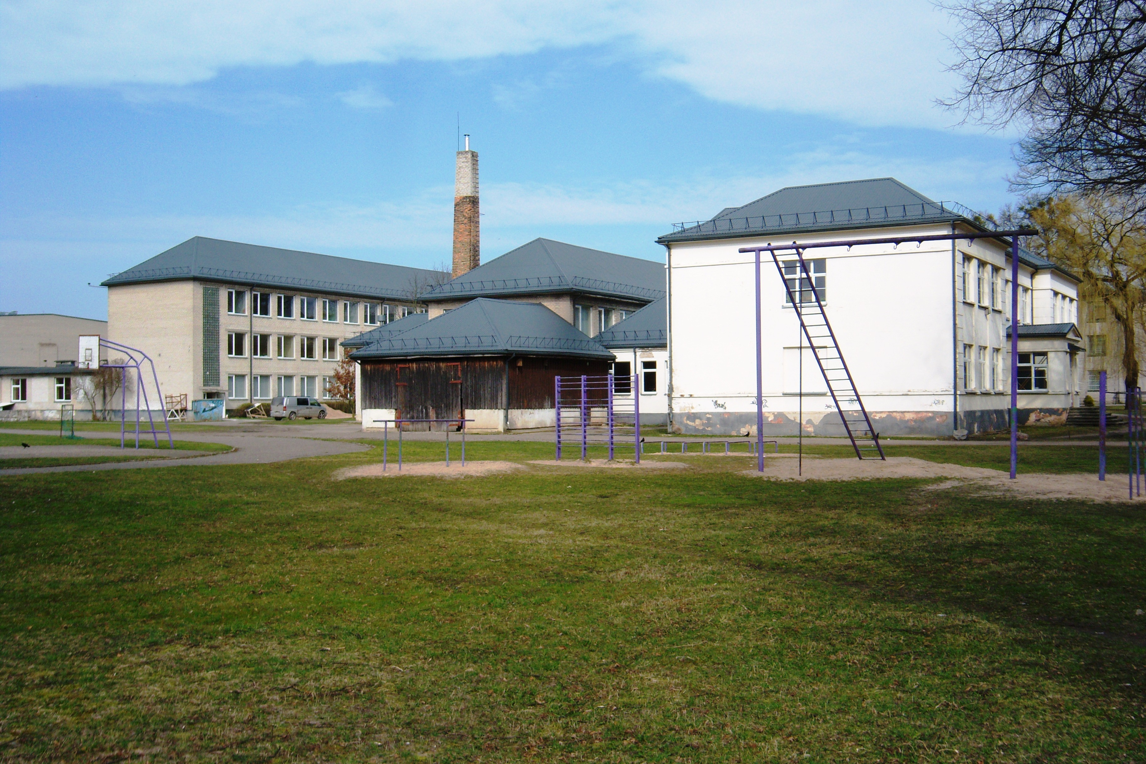 Revuona basic school, Prienai, Lithuania